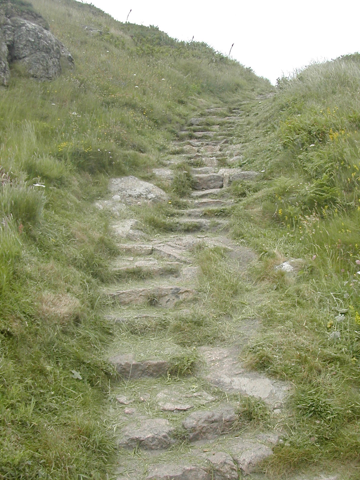 The original medieval steps leading from Porthchapel beach to the St. Levan Holy Well, uncovered in the 1930s, near Porthcurno, Penzance, Cornwall, United Kingdom Author Chris Angove June 2006